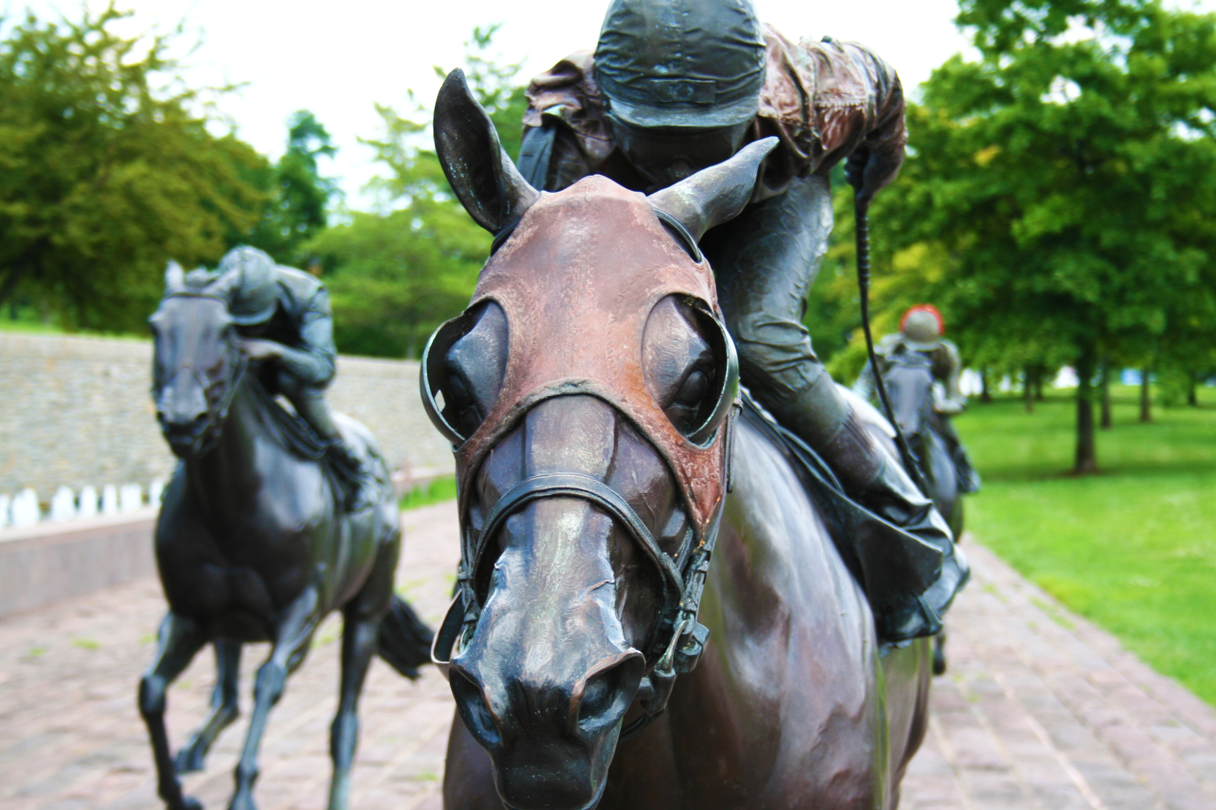 Thoroughbred Park (Lexington)